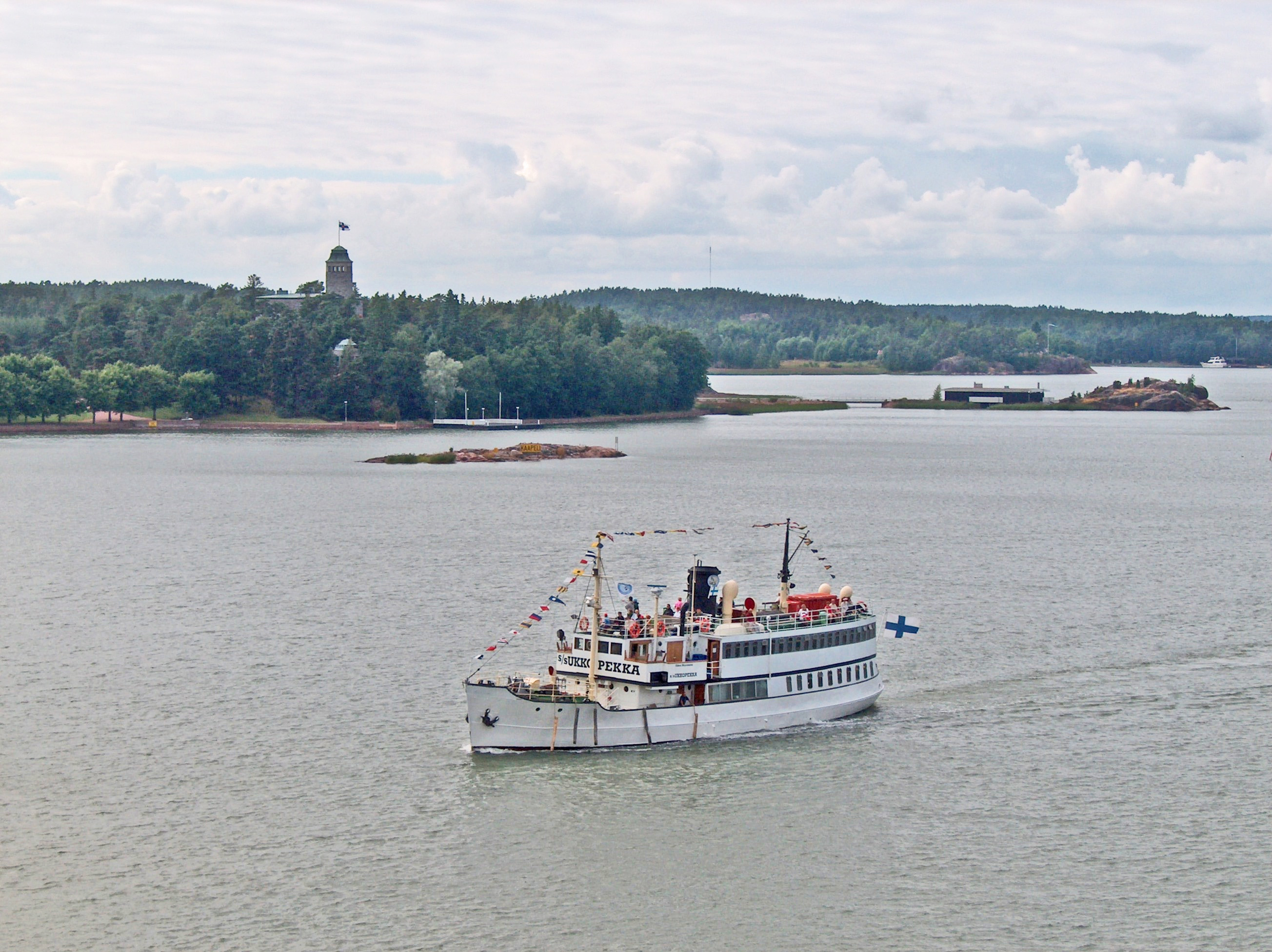 SS Ukkopekka in Naantali, Finland. Kultaranta Castle, the summer residence of the President of Finland, in the background.